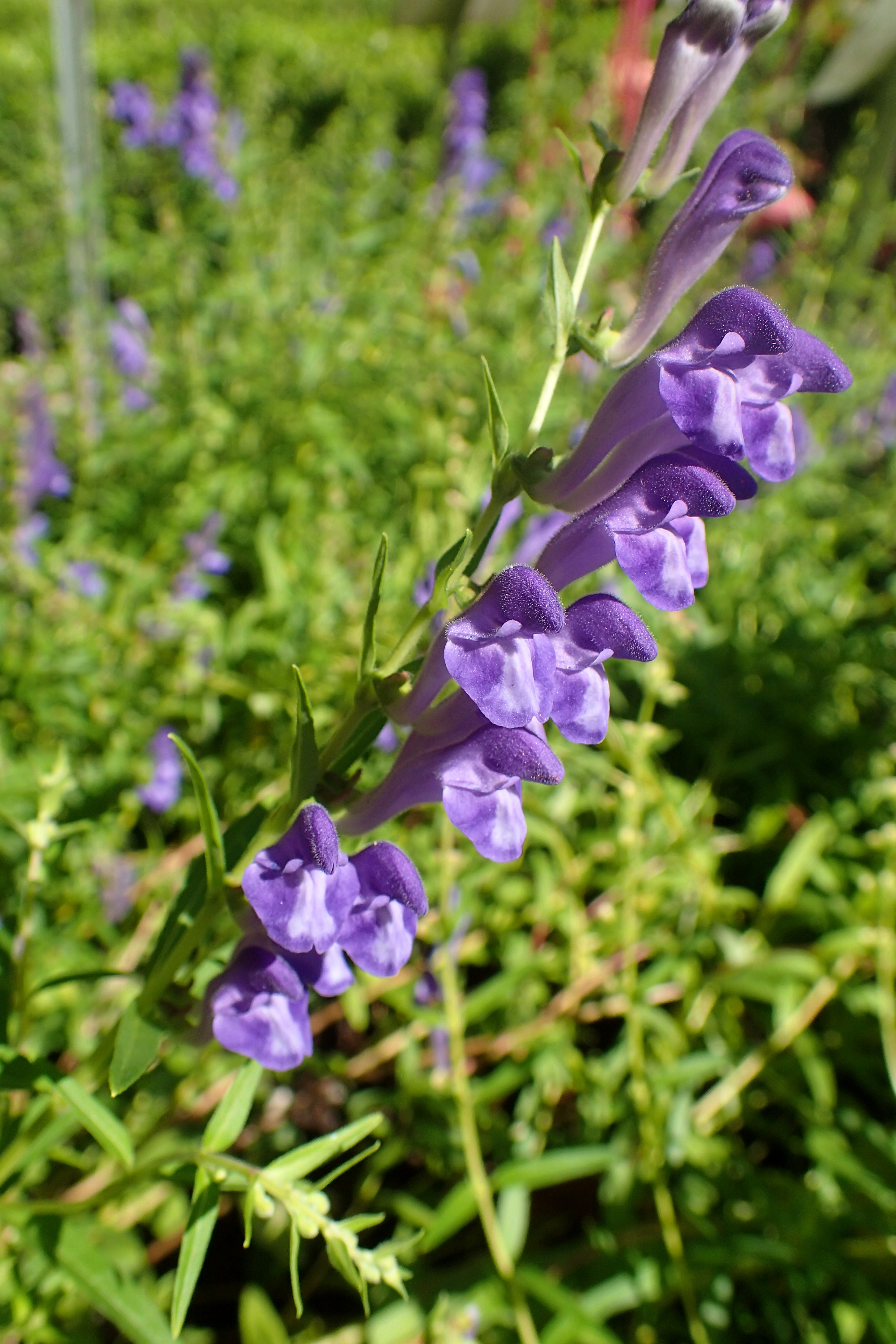 Scutellaria baicalensis in Warsaw University Botanical Garden